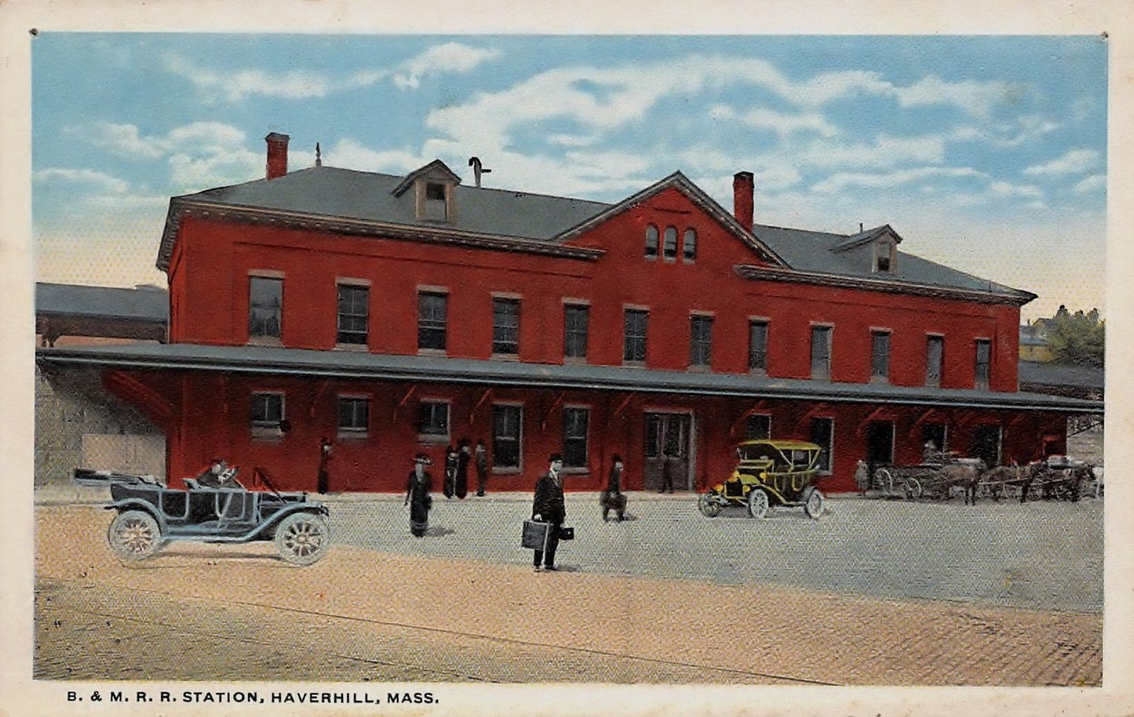 1918 postcard of Haverhill station